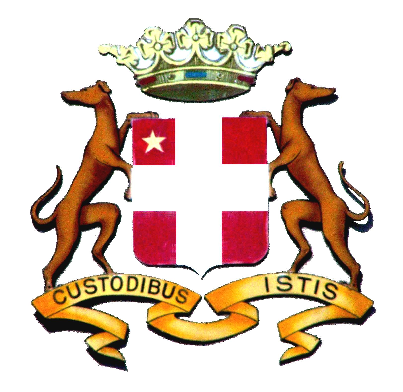 Custodibus Istis ; The city of Chambéry coat of arms (Savoie, France)